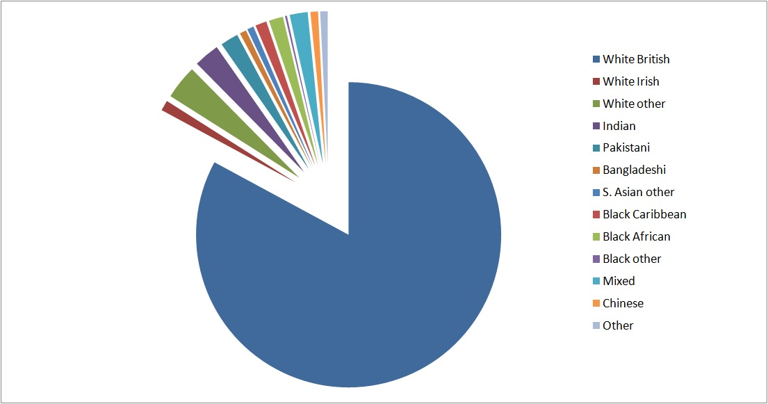 A pie chart showing the ethnic makeup of England according to 2009 estimates